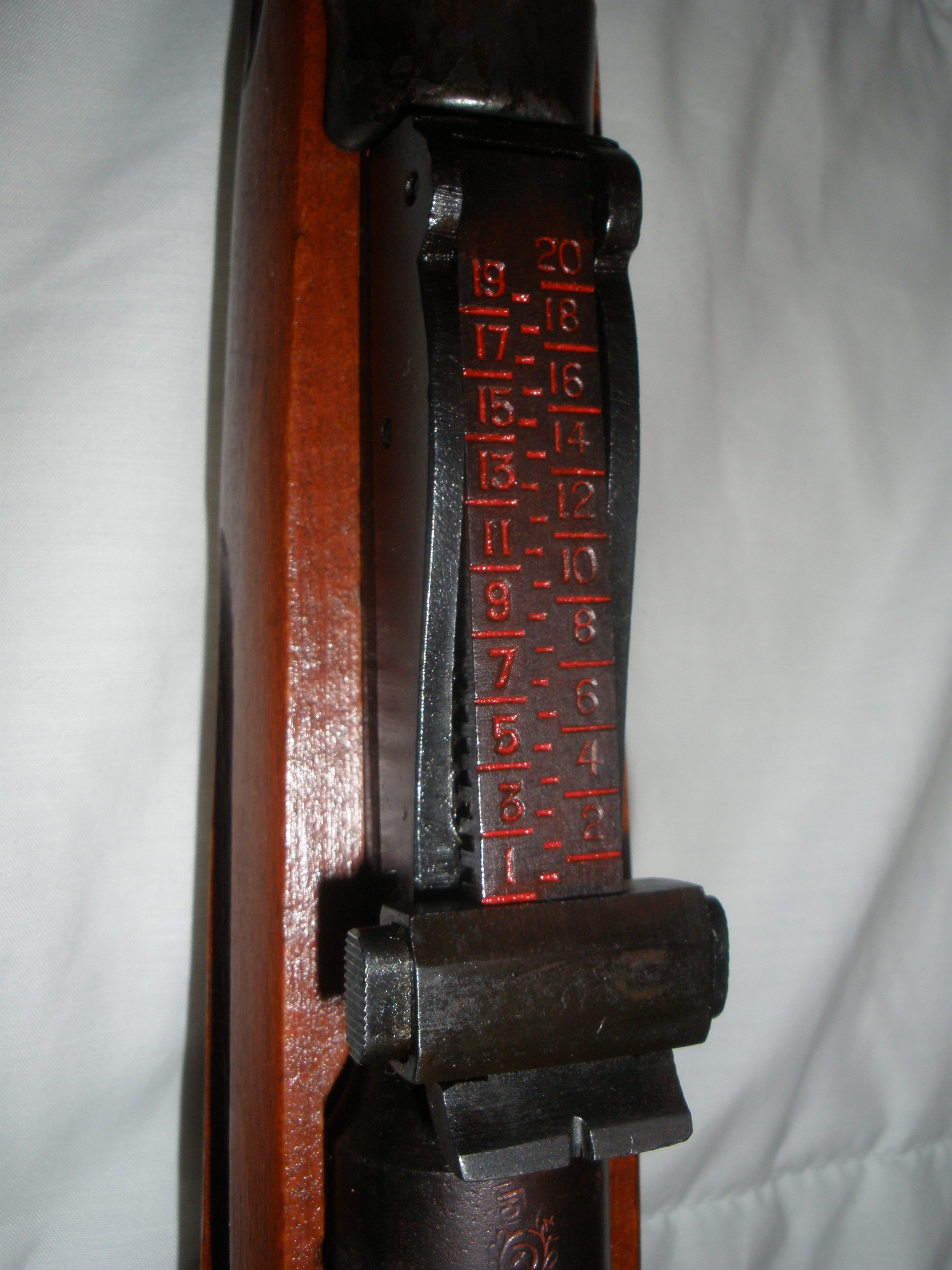 Rear sight